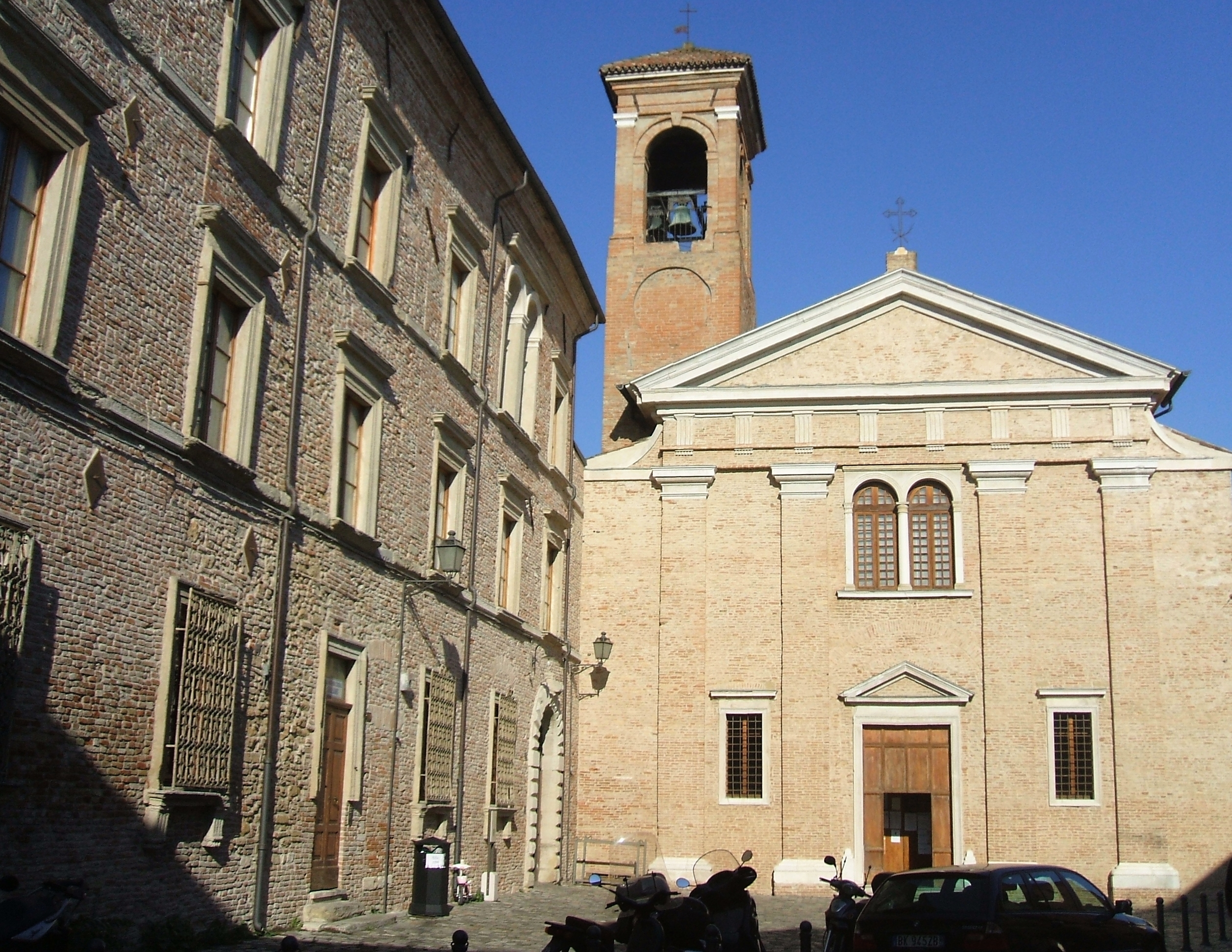 St. Julian's church in Rimini.